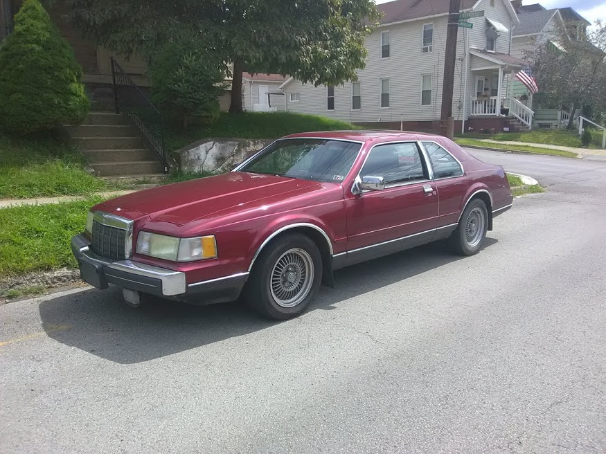 1984-1985 Lincoln Continental Mark VII photographed in Pennsylvania, USA